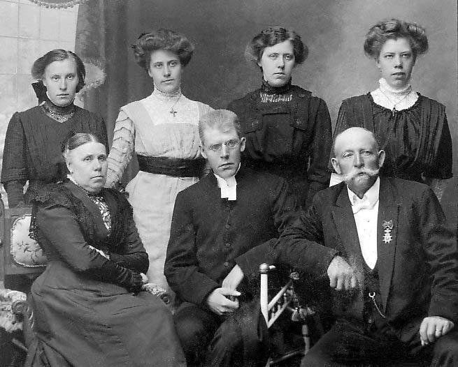 Oscar Anderson (1855-1932), wife Hilda Anderson & children l-r Tomasine Oscarson, Karin Oscarson Tysklind, Sven Erik Oscarsson, Svea-Greta Oscarson & Hildur Oscarson, as released by image owner FamSACPlace: Probably Nyköping, Sweden